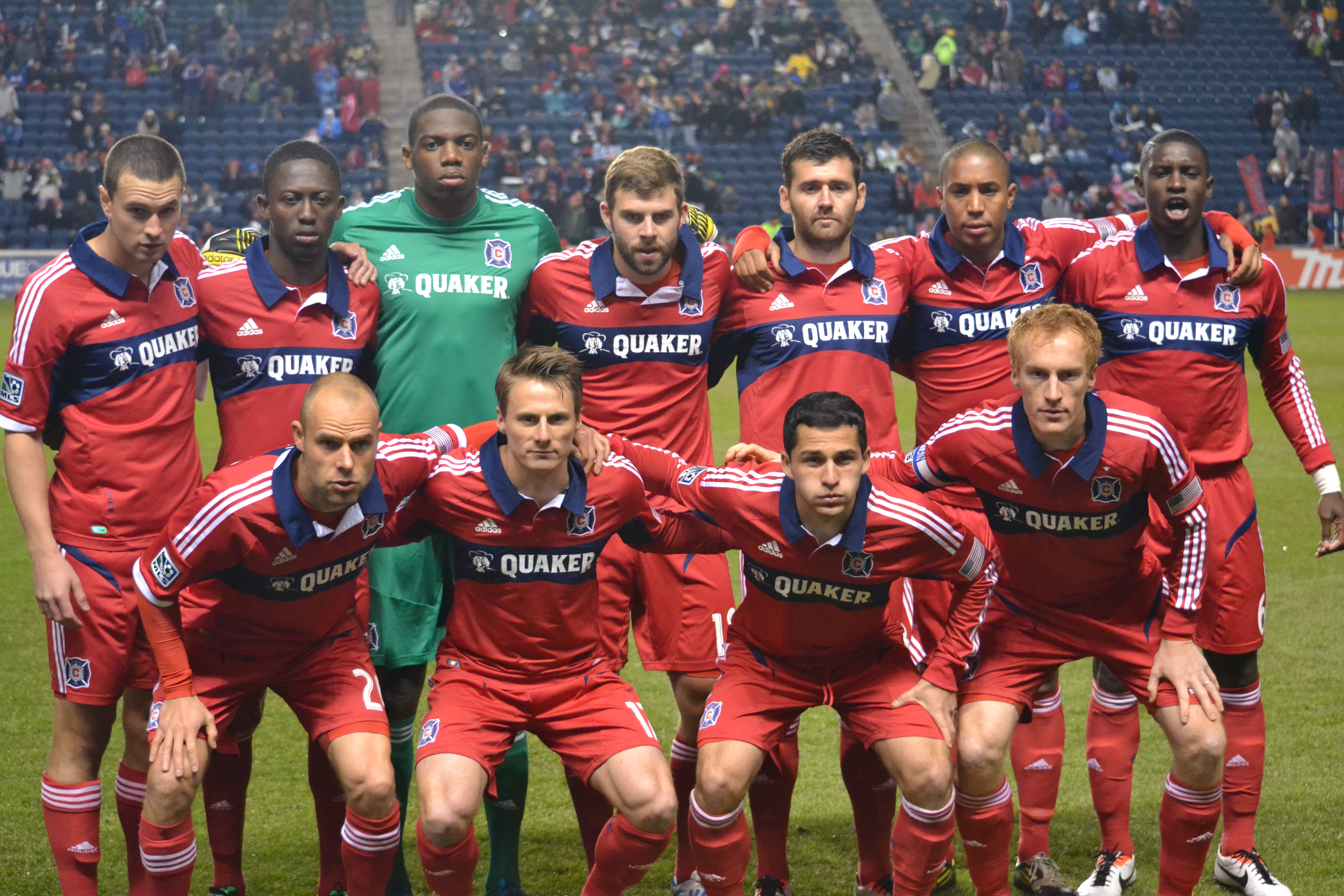 Chicago Fire, March 2013